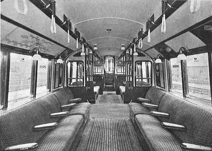 This or a very simular photograph is reproduced on Desmond F Croome & Alan A Jackson (1993) Rails through the Clay, Capital Transport where it is identified as Standard Stock driving motor car 572 built by Metro-Cammell in 1923 for the Hampstead line's Edgware and Morden extensions.